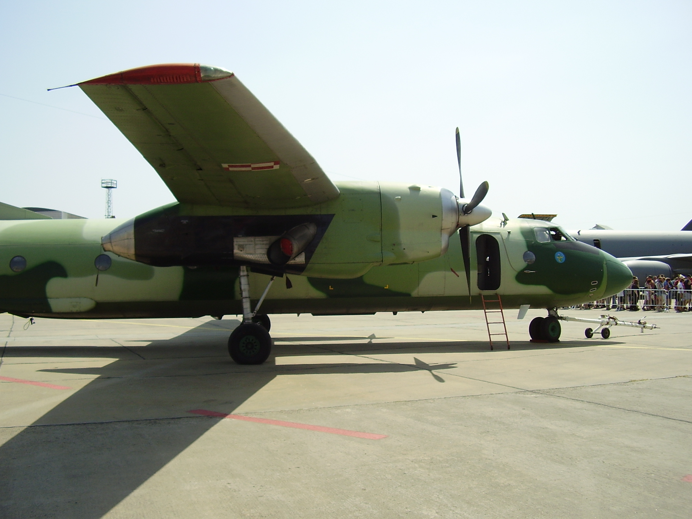 ILA 2008; PZL TS-11 Iskra of Polish Air Force (registration 1406), An 26